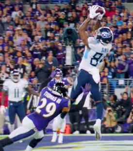 Corey Davis in 2020. Image from video Two Big 4th Down Stops & Ensuing TDs vs. Ravens | Beneath the Surface, ~ 02:06.